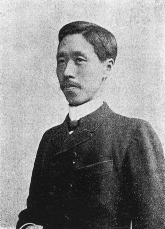 Mr. Takehiko Yumoto.